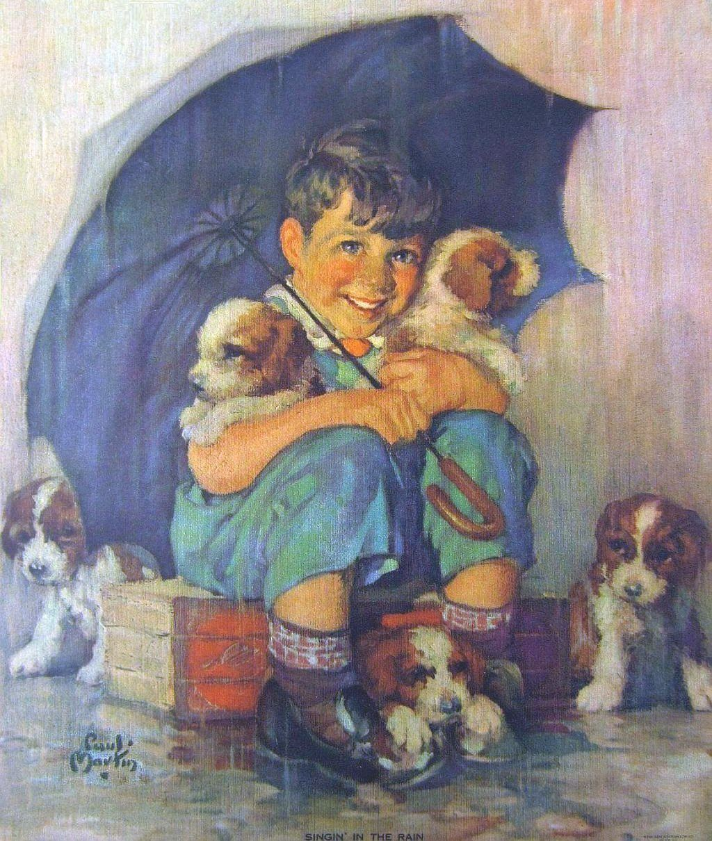 Boy sheltering pups from the rain with an umbrella.